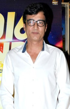 Narendra Jha at trailer and poster launch of 2016 The End.